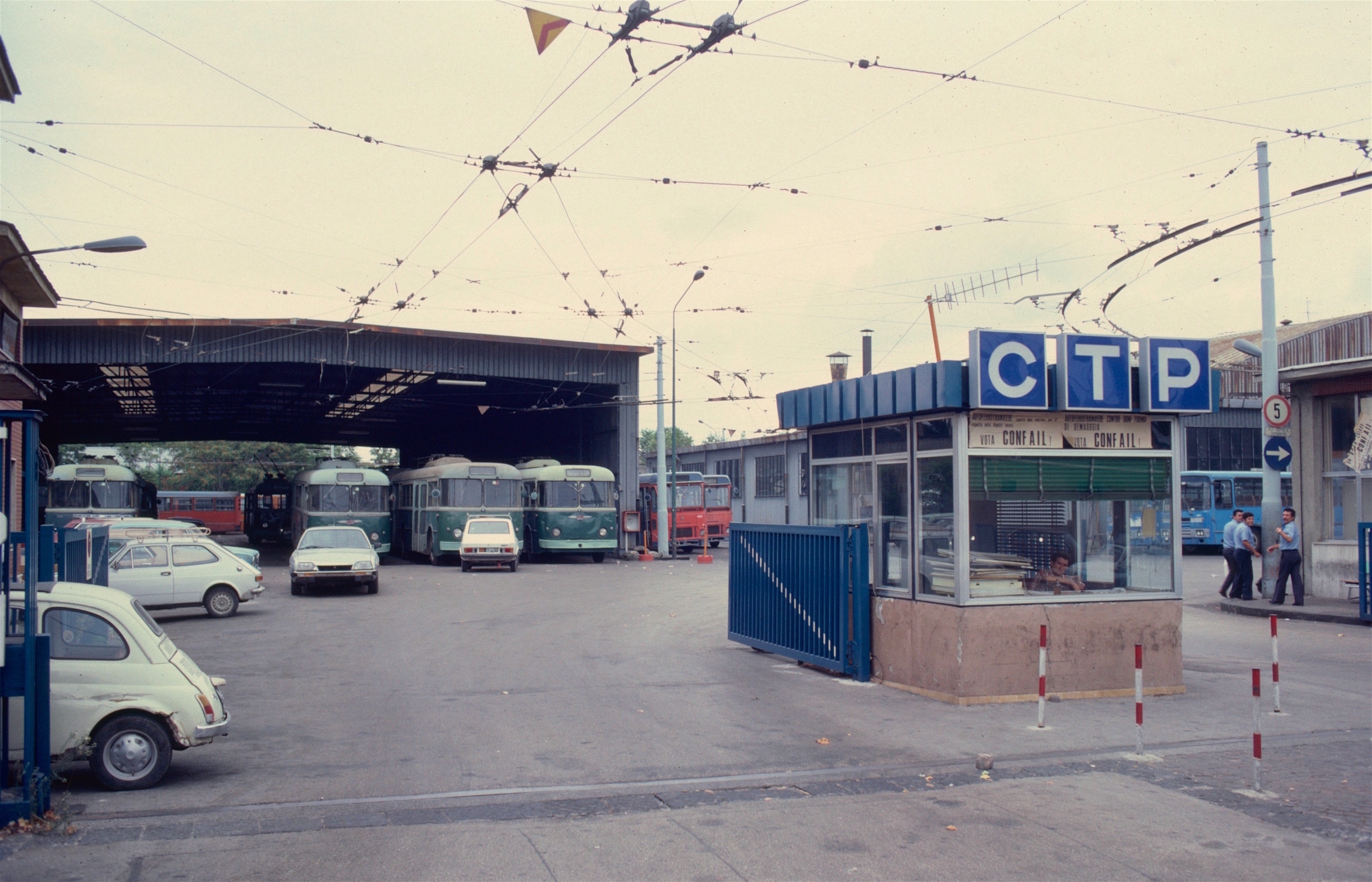 The former Maddalena Depot (Deposito Maddalena) of CTP Napoli (ex-TPN), located on Viale Maddalena, in 1983. Several Alfa Romeo 1000AF trolleybuses are visible, along with a few urban-type motorbuses (in orange) and two interurban-service coaches (blue). This depot closed in 1999, to permit expansion of the adjacent airport.